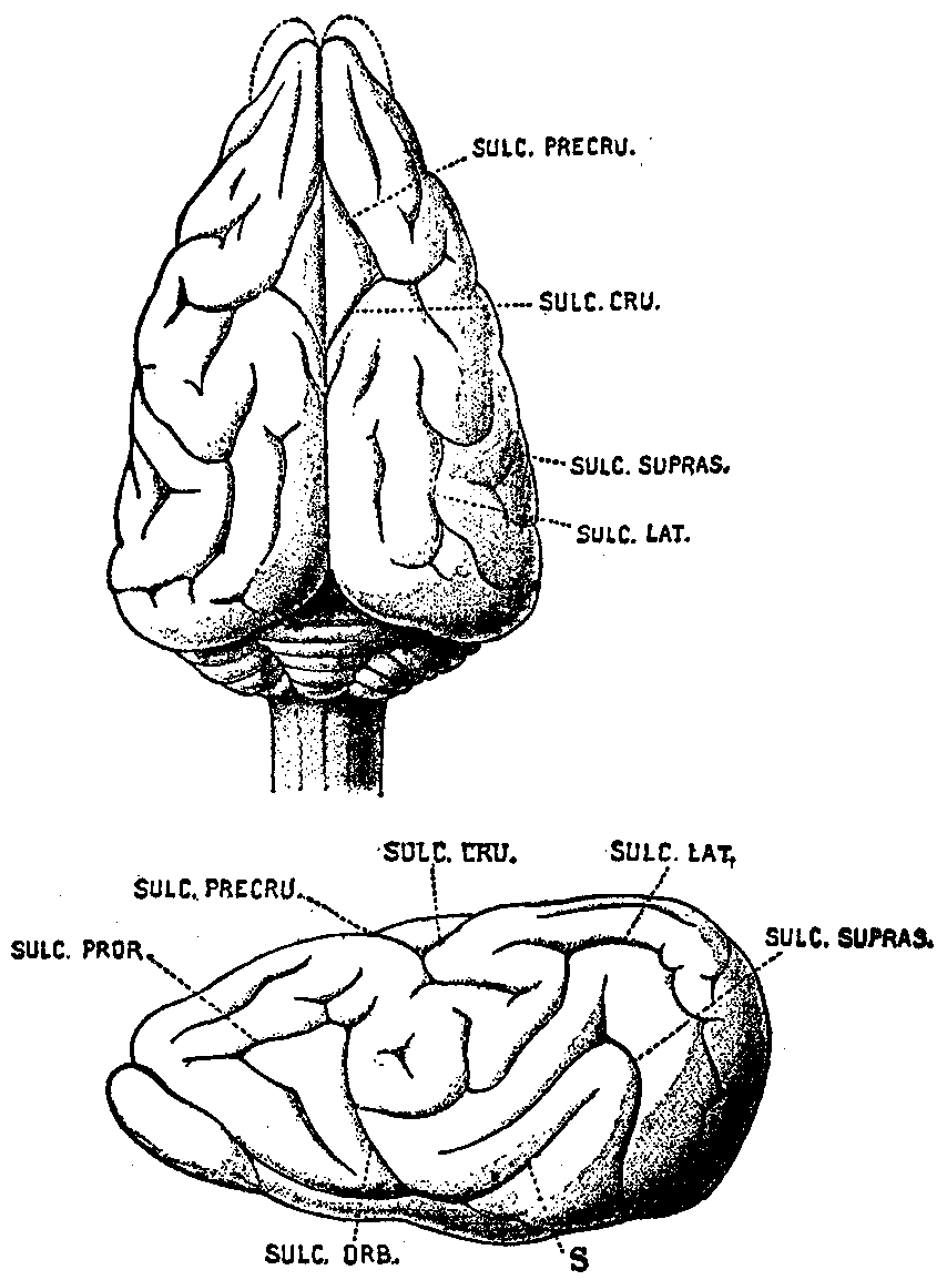 Dorsal and Lateral Views of the Brain of Ratel or Honey Badger (Mellivora indica).